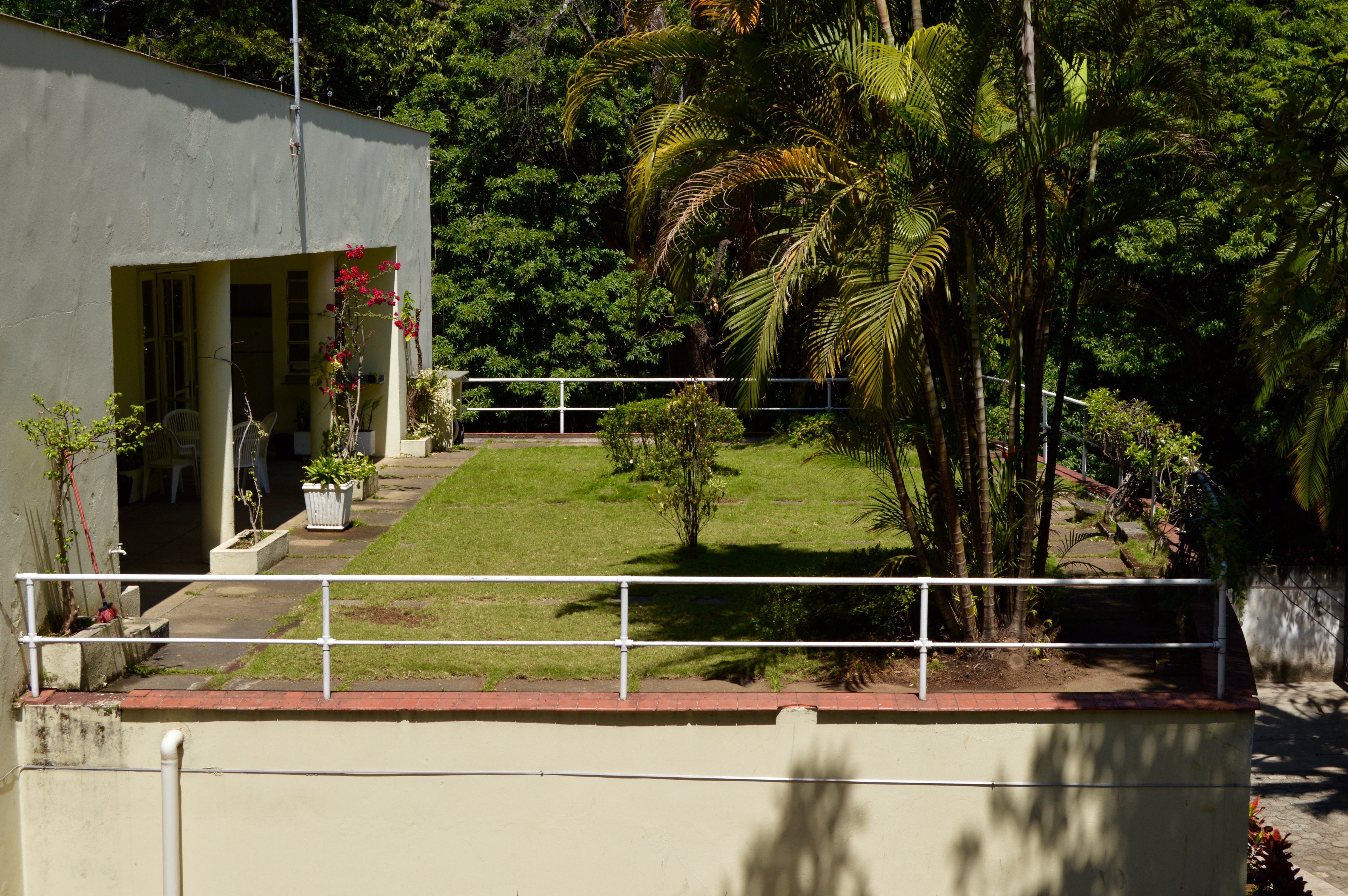 View from the third floor of the first building.